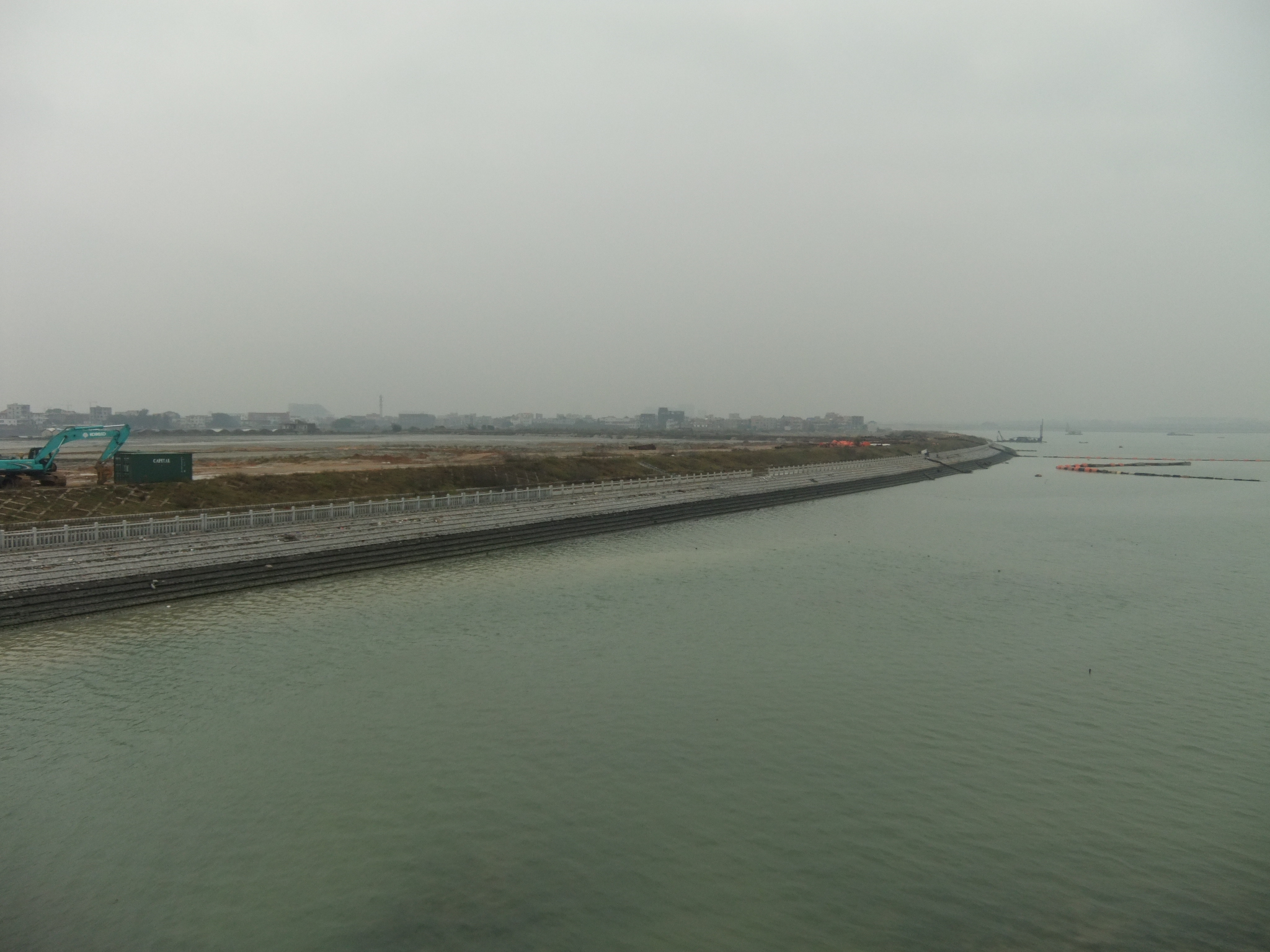 The area around the western end of the Tong'an Bridge, in Xiamen's Tong'an District. (The northwestern shore of Dongzui Bay, including Bingzhou Peninsula) It appears that land reclamation goes on full-speed here. the city creating solid land out a tidal plain!